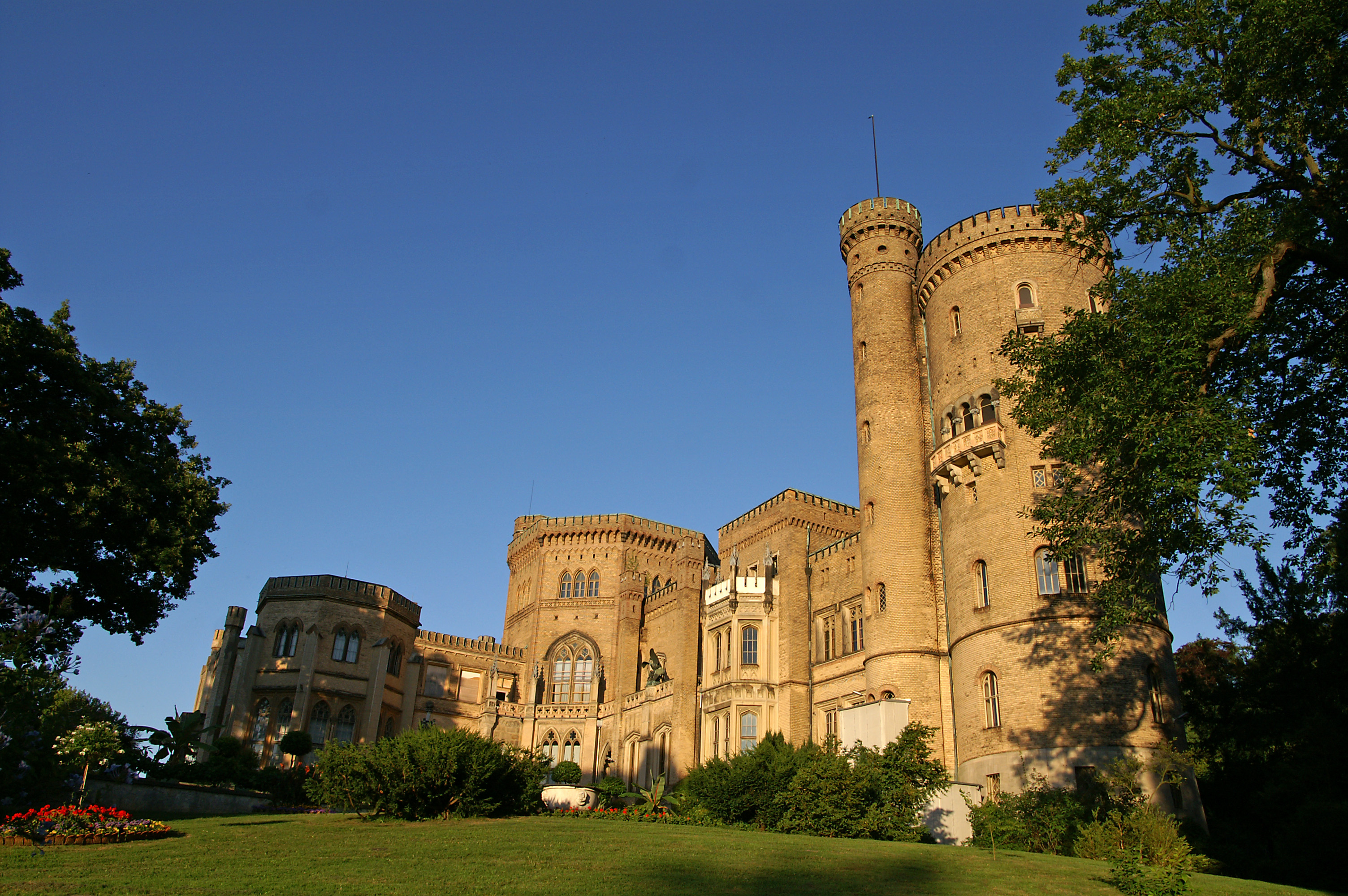 Babelsberg Castle, View from south